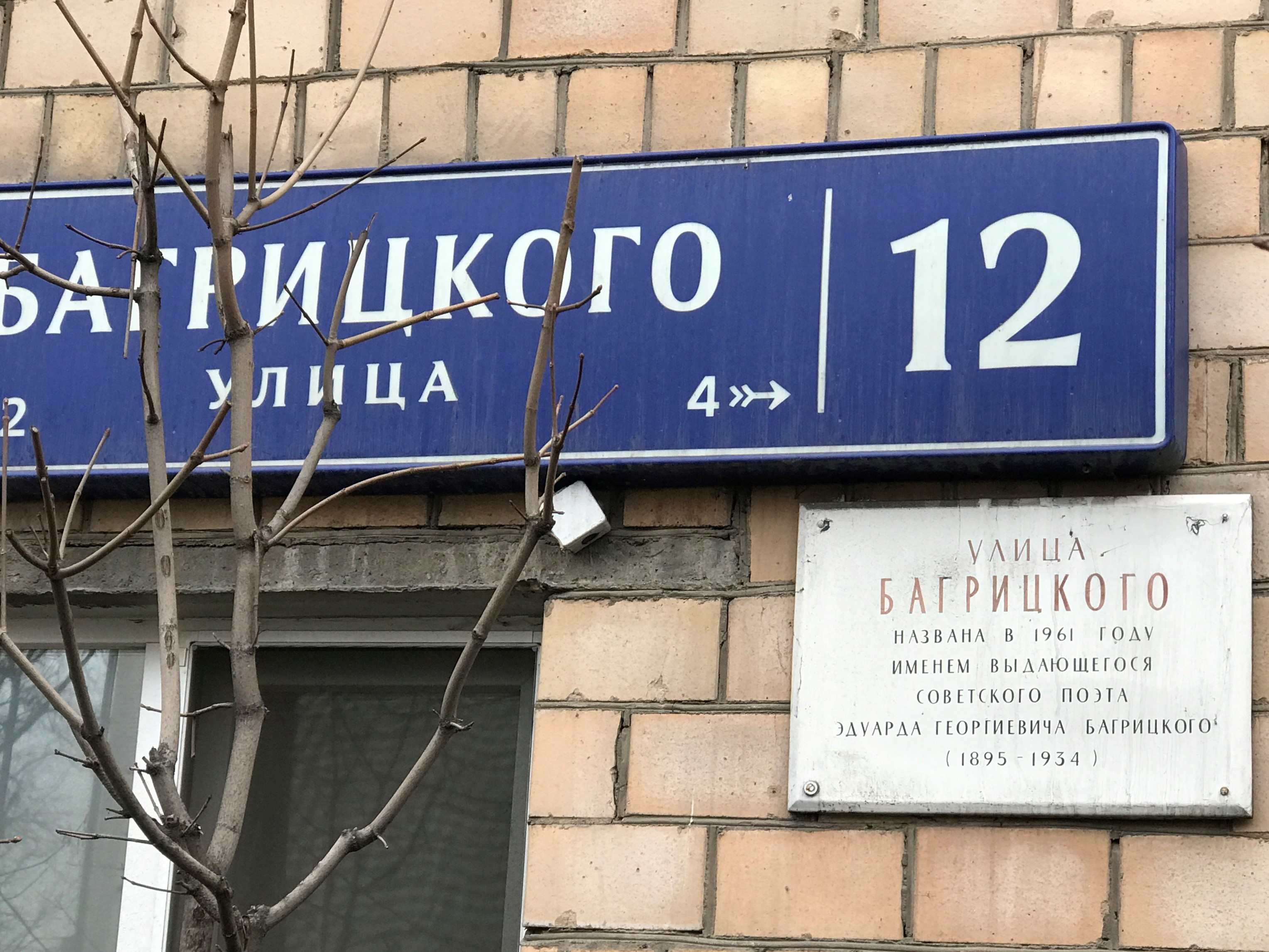 Memorial plaque to E. Bagritsky.